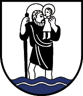 Source: "Fahnen-Gärtner GmbH, Mittersill" This file depicts a coat of arms. The composition of coats of arms are generally public domain with respect to copyright laws, and may be reproduced freely. This corresponds to the international traditional usage, and is explicitly stated in some national copyright laws. Some compositions, of more recent origin, may be copyrighted. This is not a valid license as such, being a "public domain" statement for the coat of arms definition only. It must be completed with the copyright tag associated to the picture creation. See Commons:Coats of arms for further information. Please note that this applies only to the coat of arms definition (composition / description). The representation of a coat of arms is an artistic creation, subject as such to copyright laws. Restriction of use - Legal notice: Most of the time, the usage of coats of arms is governed by legal restrictions, independent of the status of the depiction shown here. A coat of arms represents its owner. Though it can be freely represented, it cannot be appropriated, or used in such a way as to create a confusion with or a prejudice to its owner. Usage on Commons: Please provide licence information for the coat of arm representation, information for the author of the picture, and the source if not self-made work. This image is in the public domain according to Austrian copyright law because it is part of a law, ordinance or official decree issued by an Austrian federal or state authority, or because it is of predominantly official use. (§7 UrhG) To uploader: Please provide where the image was first published and who created it.